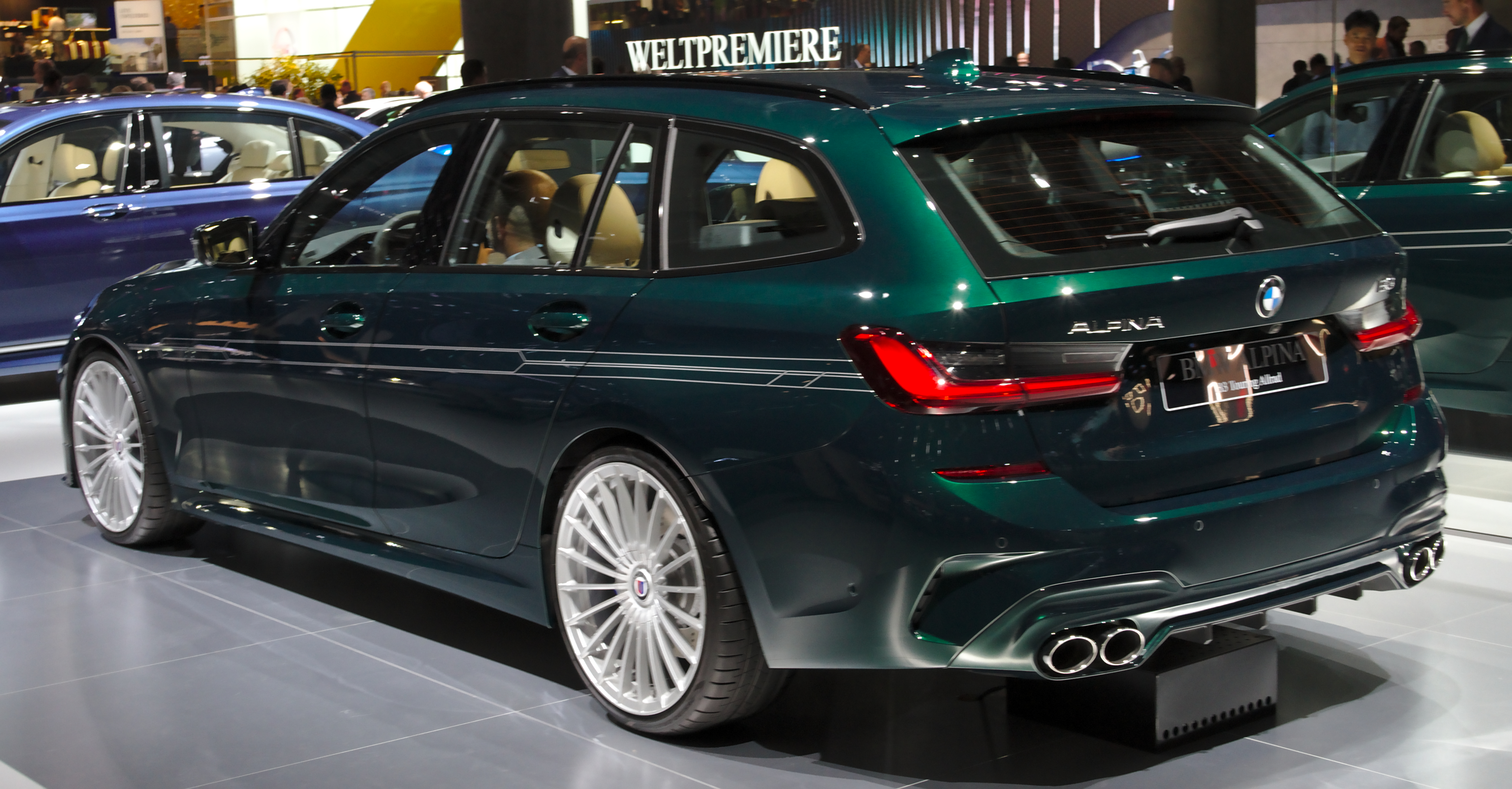 Alpina_B3_Touring_(G21) at IAA 2019